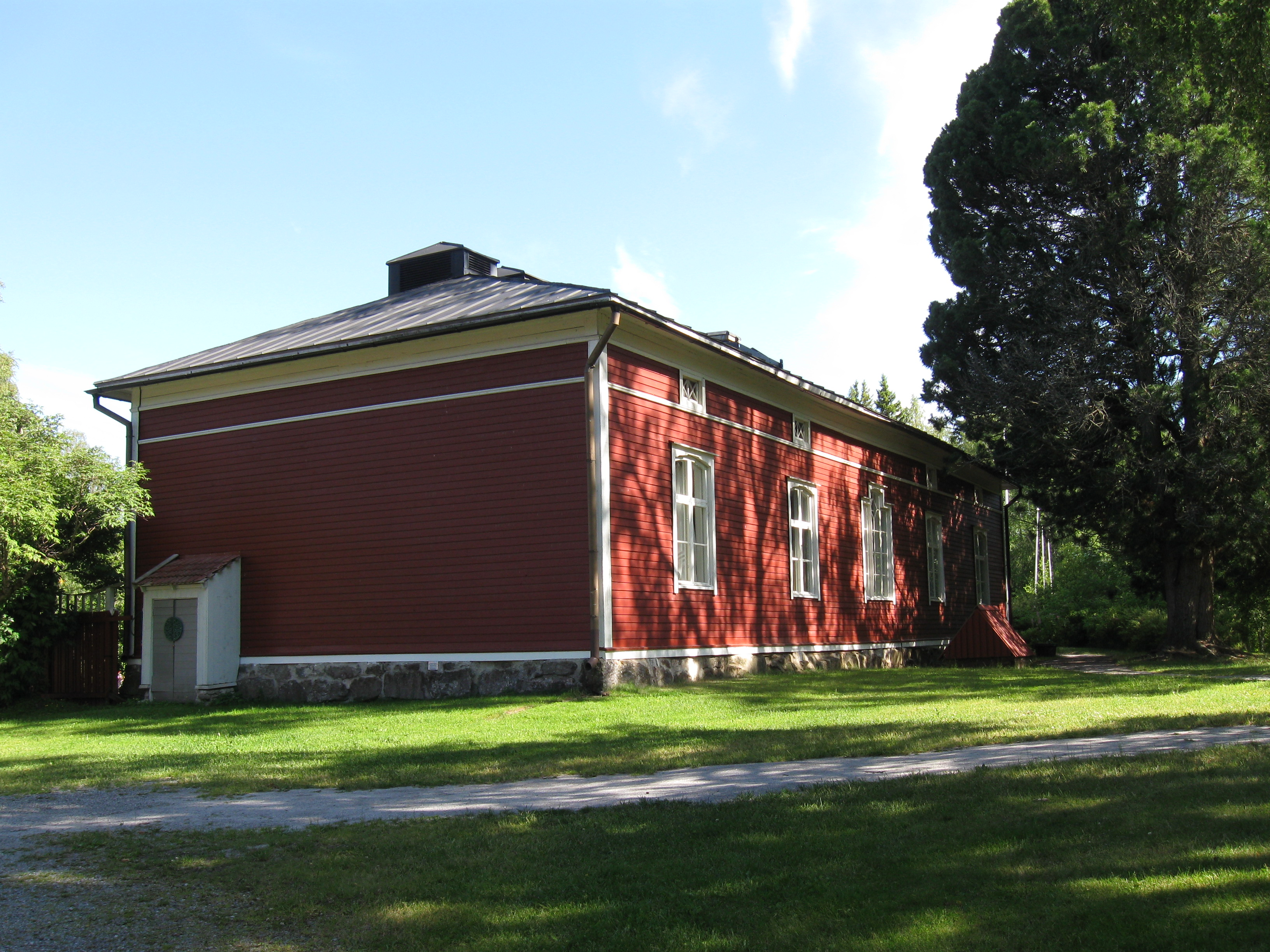 The main building of the Strömsö village area in Vaasa, Finland.